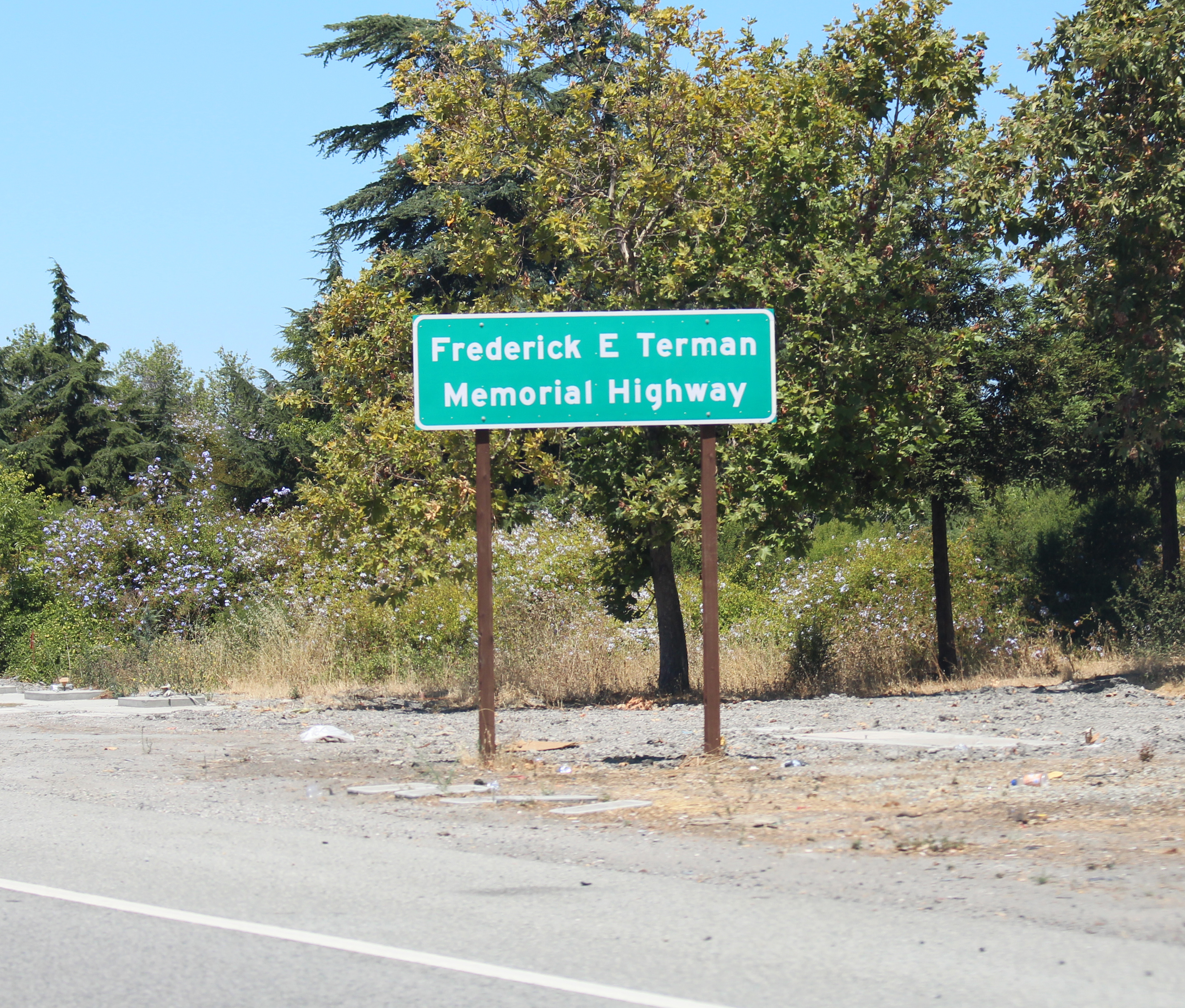 This sign on northbound U.S. Route 101 in California marks the beginning of the section designated as the Frederick E. Terman Memorial Highway. Photographed by user Coolcaesar on August 2, 2020.